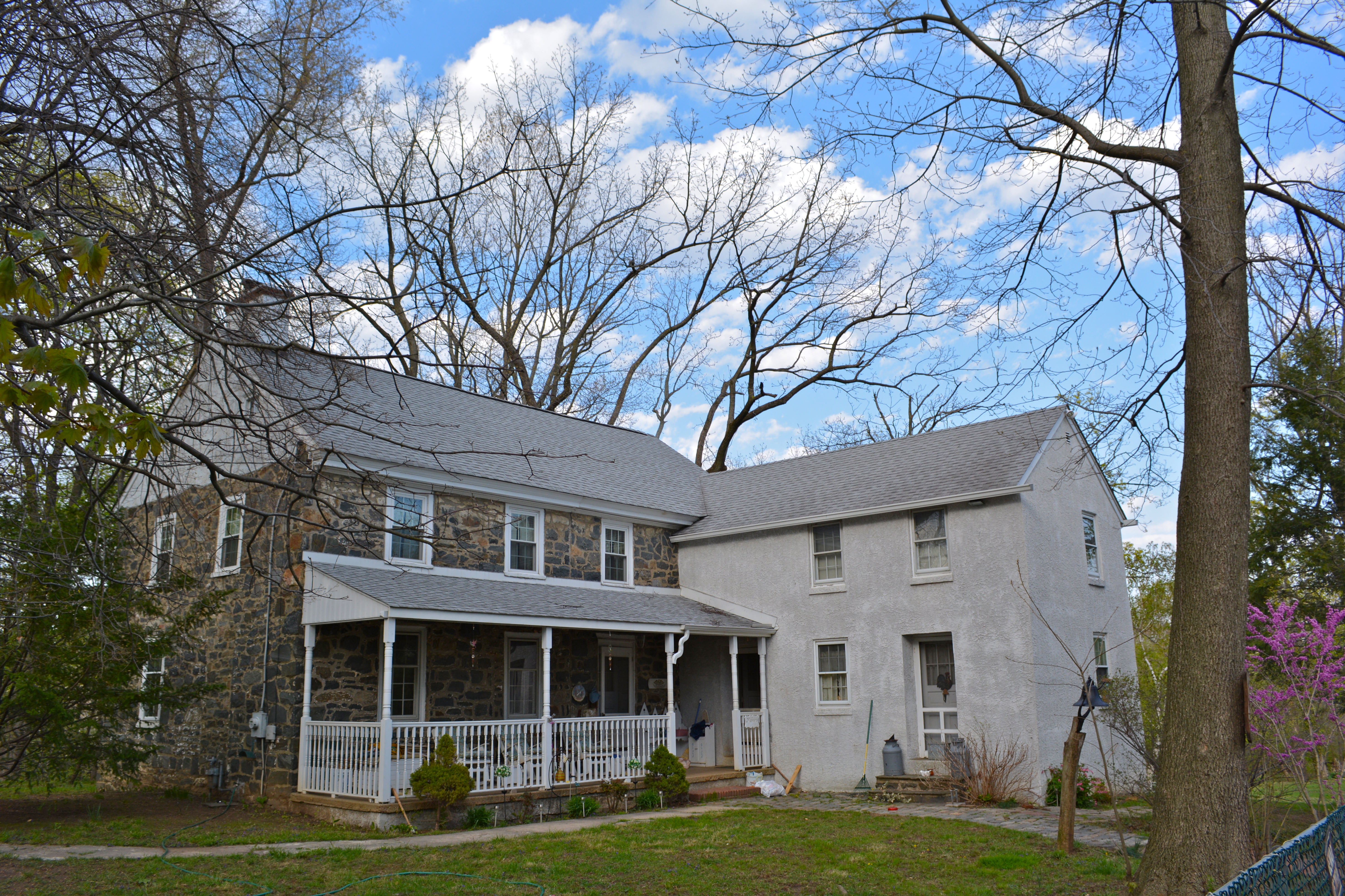 Springer-Cranston House, listed on the NRHP on September 30, 1994 (#94001177) at 1015 Stanton Rd. in Mill Creek Hundred 39°43′33″N 75°38′19″W Marshallton, Delaware